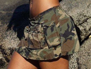 Cropped version of File:Aline Campos 1.jpg. Cropped so it shows only the military camouflage dressing.